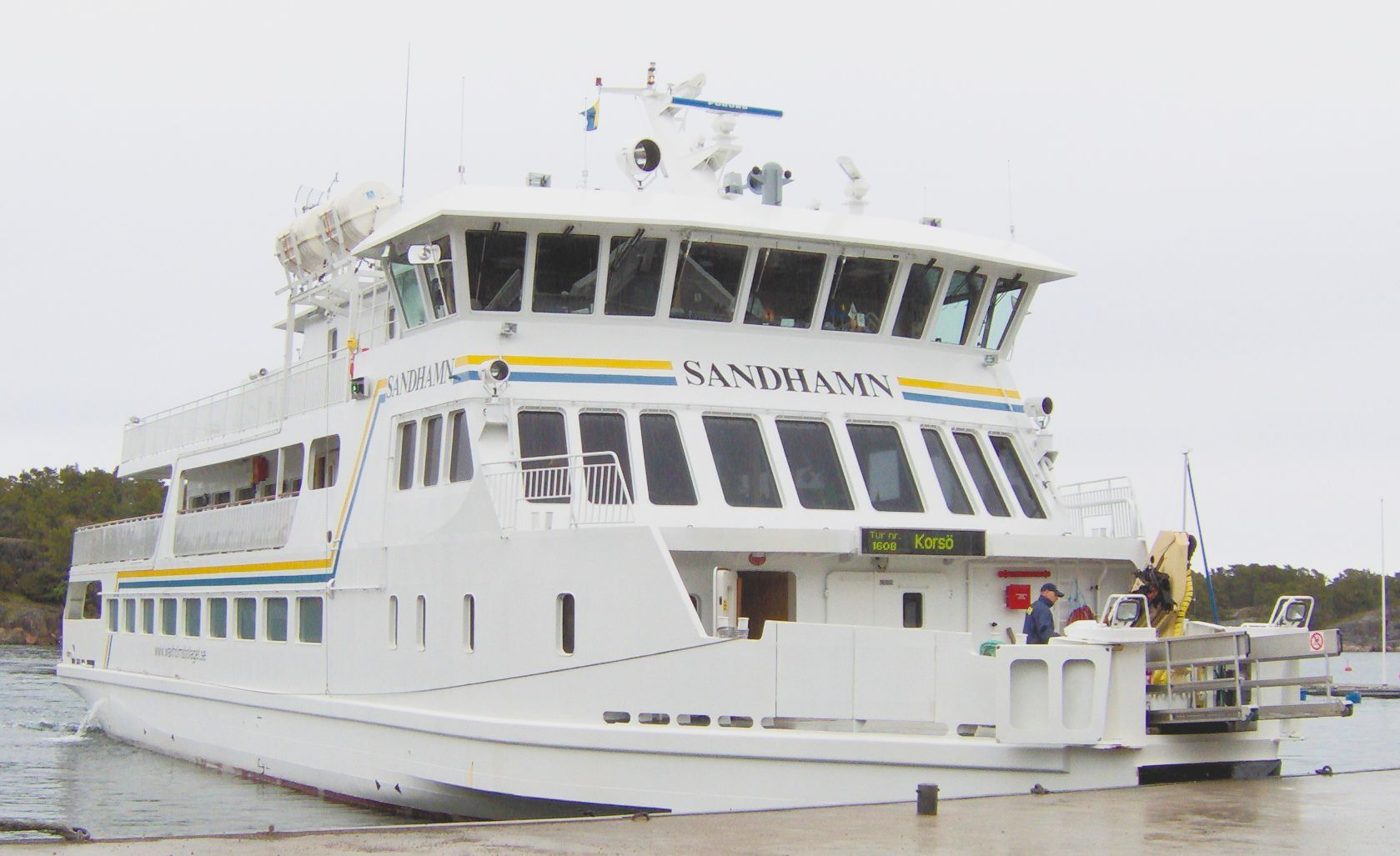 M/S Sandhamn in Stockholm, Sweden